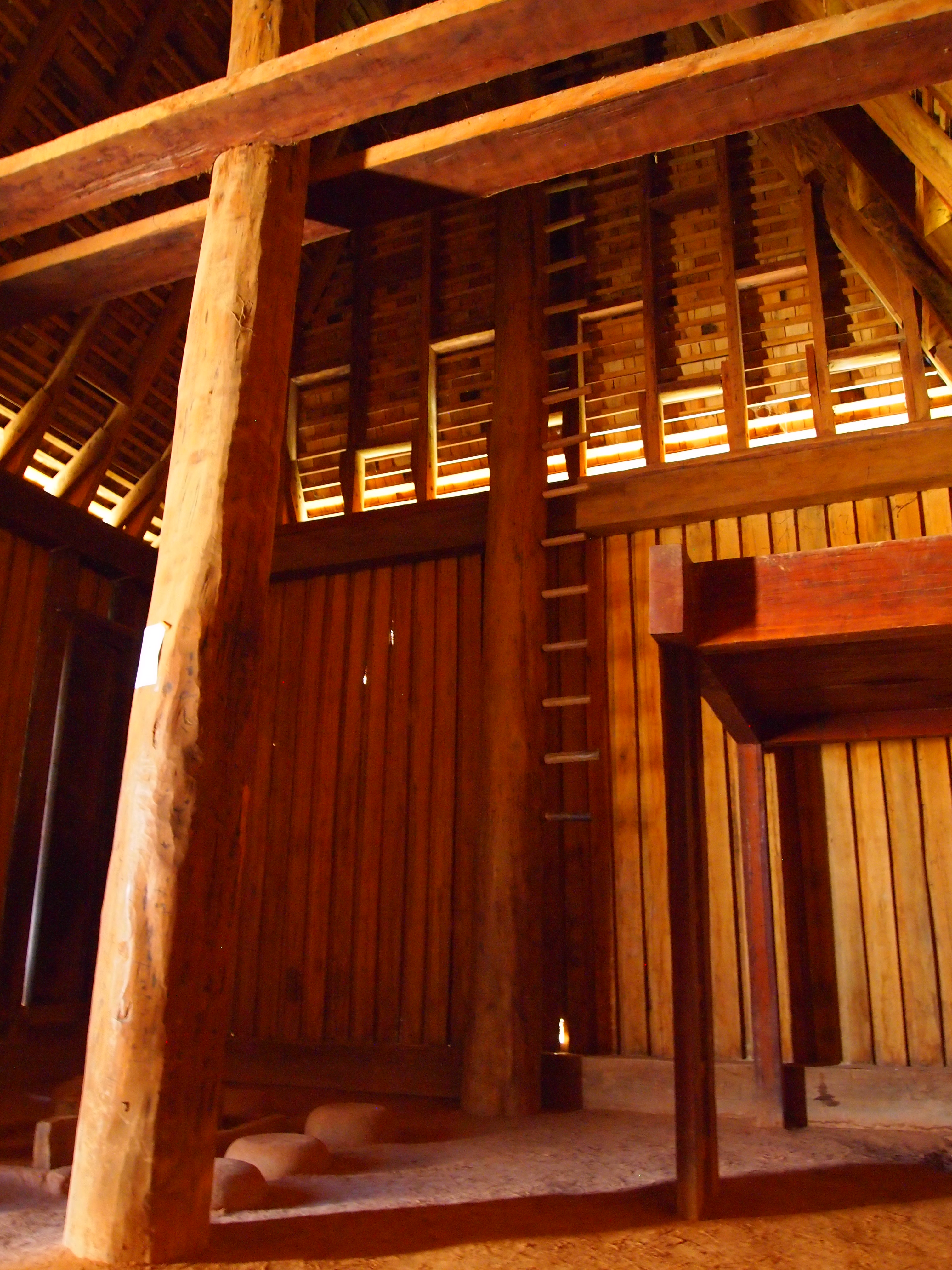 Interior of Reconstructed Mahitsielafanjaka palace at Rova of Antananarivo Madagascar